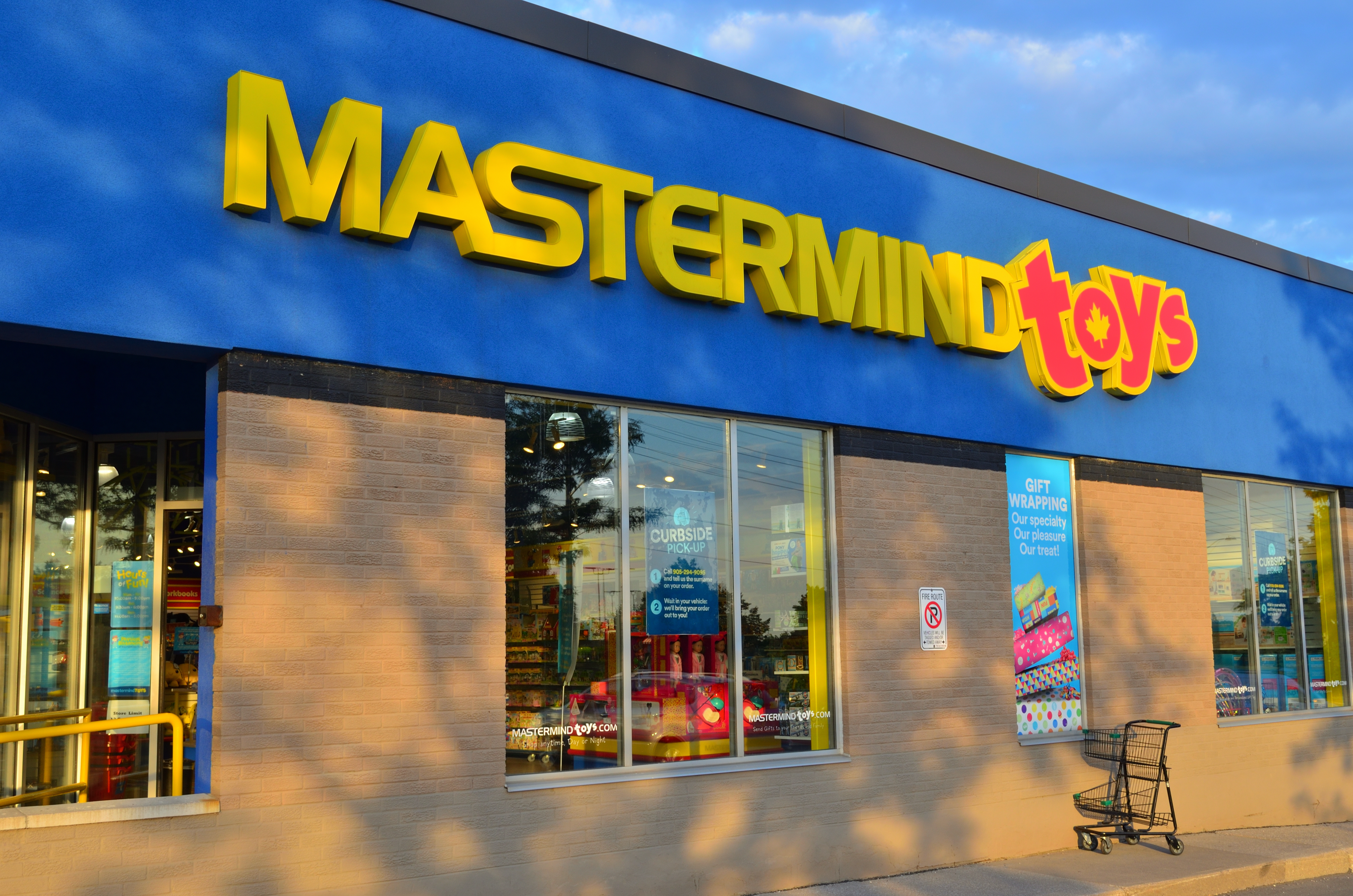 MasterMindToys - Address: 8555 McCowan Road, Unionville, ON L3P 1W9